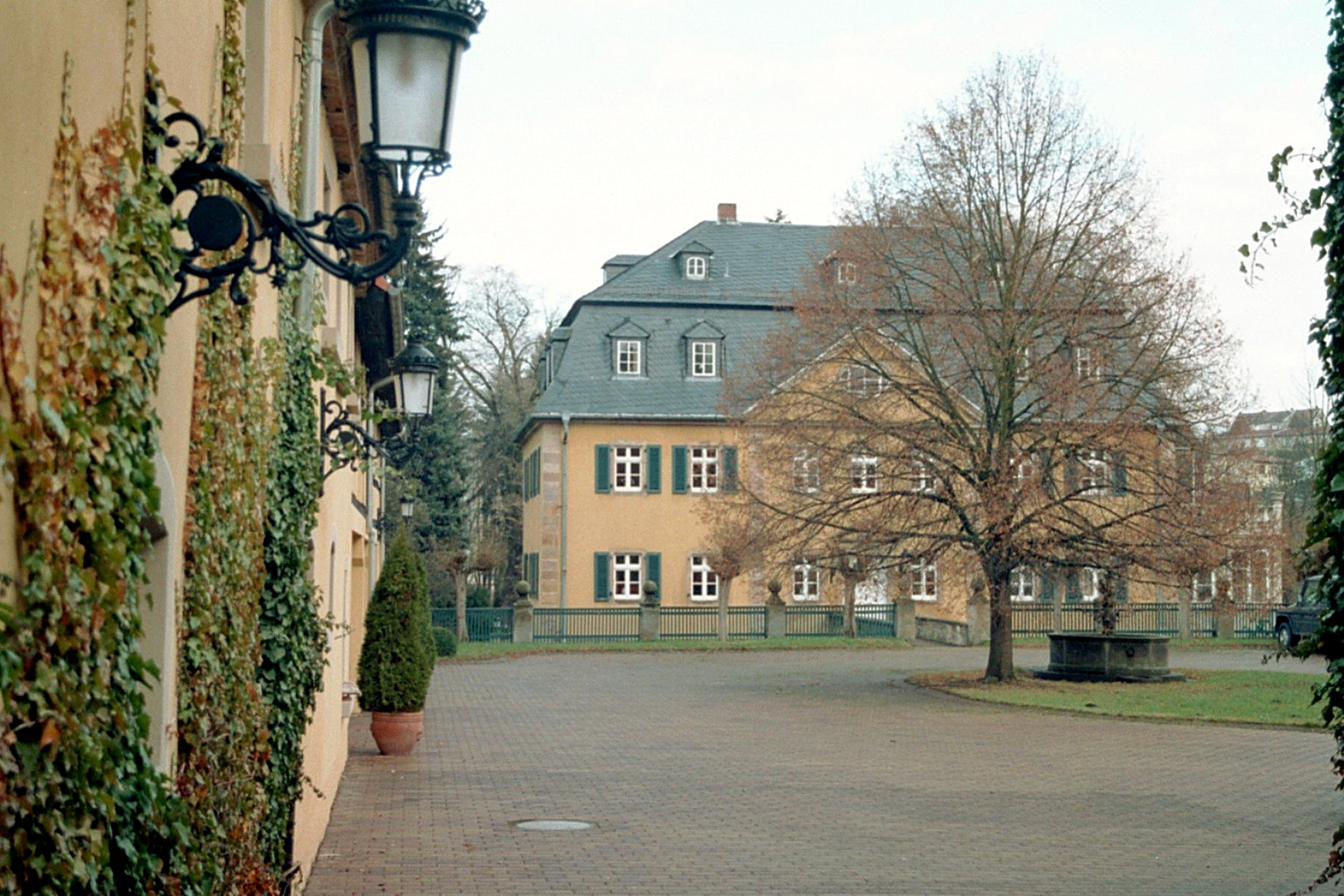 Hartmannsdorf next to Eisenberg, the palace